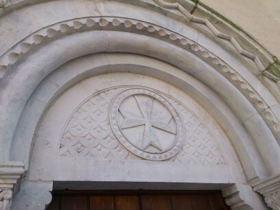 Portal of a church in Bavaria